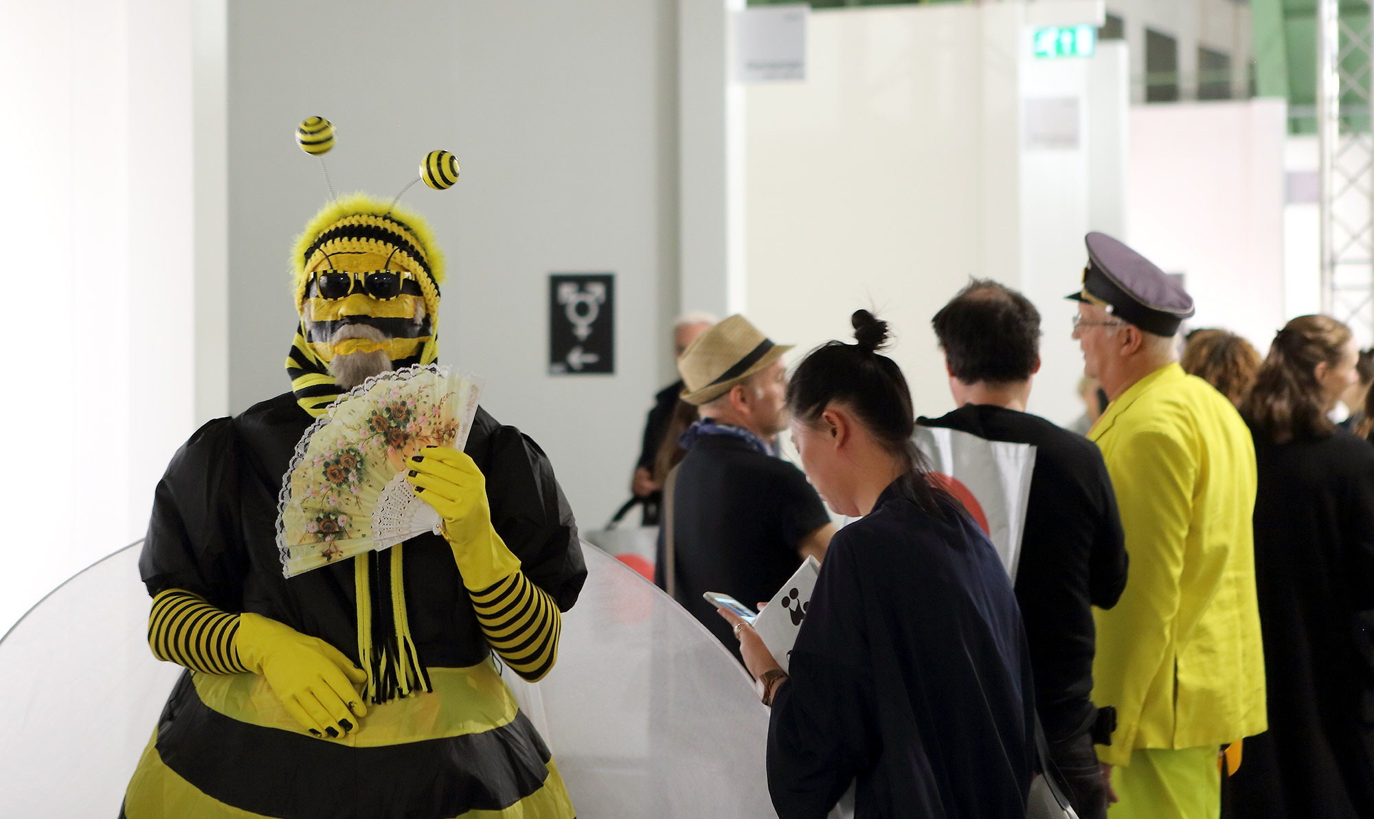 Artist Vincent van Volkmer (as a bee) at the abc - art berlin contemporary, 2017.